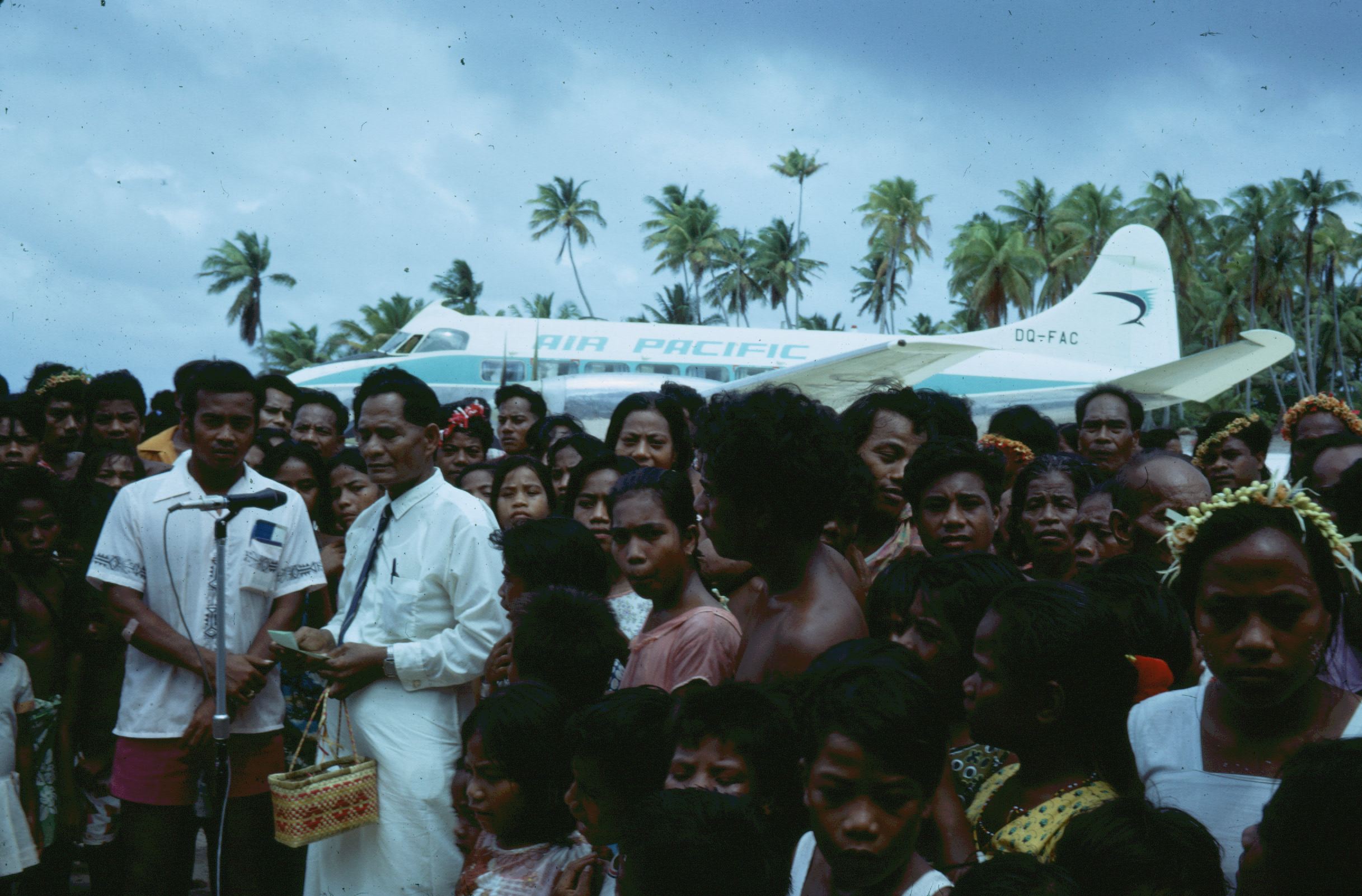 Inaugural flight into Marakei Airport, Kiribati by Air Pacific de Havilland Heron (DQ-FAC). This flight marked the official opening of the airport.